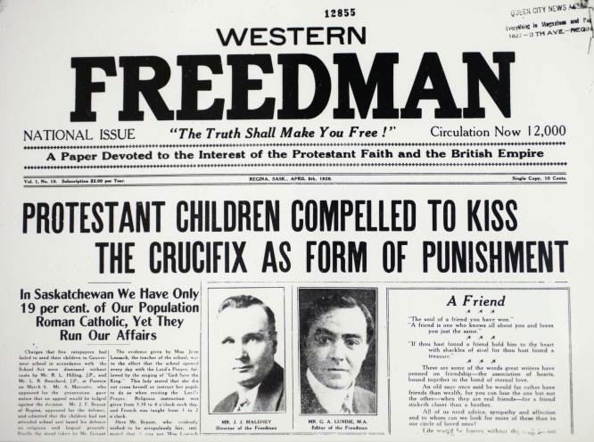 Ku Klux Klan publication Western Freedman. Masthead and headline, volume 1, number 10, 5 April 1928.